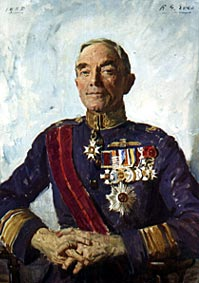 Portrait of Vice Air Marshal Sir Philip Game, former Governor of New South Wales.